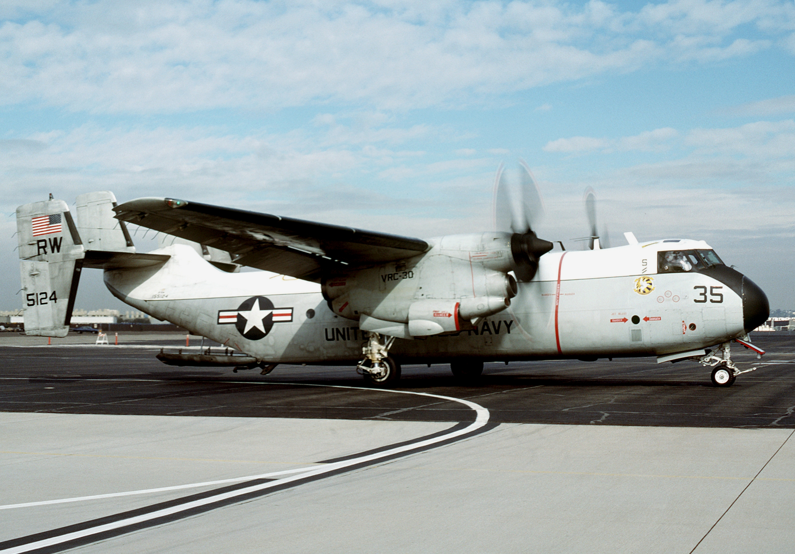 A U.S. Navy Grumman C-2A Greyhound (BuNo 155124) from Fleet Logistics Support Squadron 30 (VRC-30) Providers at the Naval Air Station North Island, California (USA), on 23 December 1986.